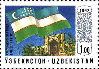 3 Independence from Soviet Union, 1st Anniv.